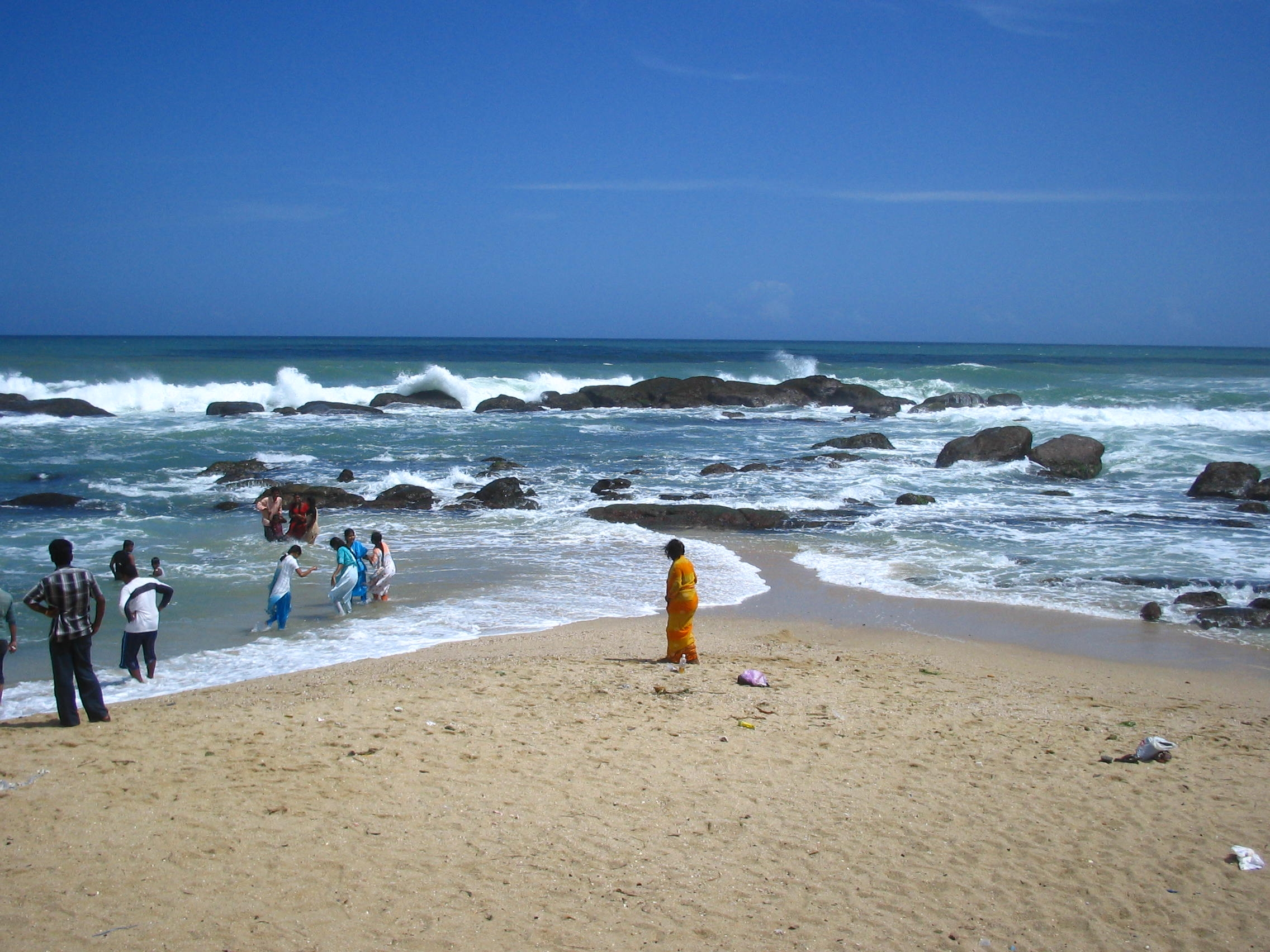 Three waters: Arabian Sea, Indian Ocean and Bay of Bengal.